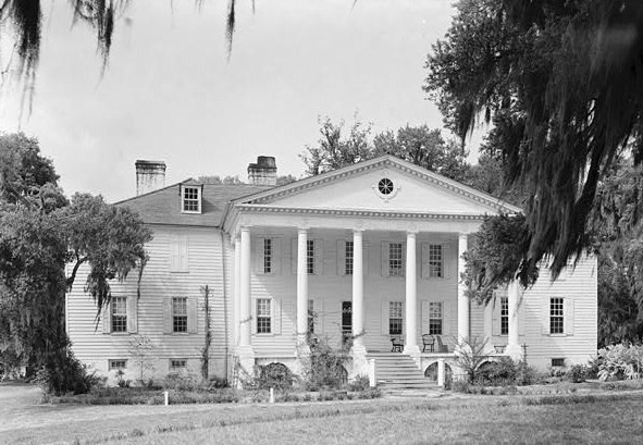 Hampton Plantation, Wambaw Creek, South side, McClellanville vicinity, Charleston County, SC (cropped)